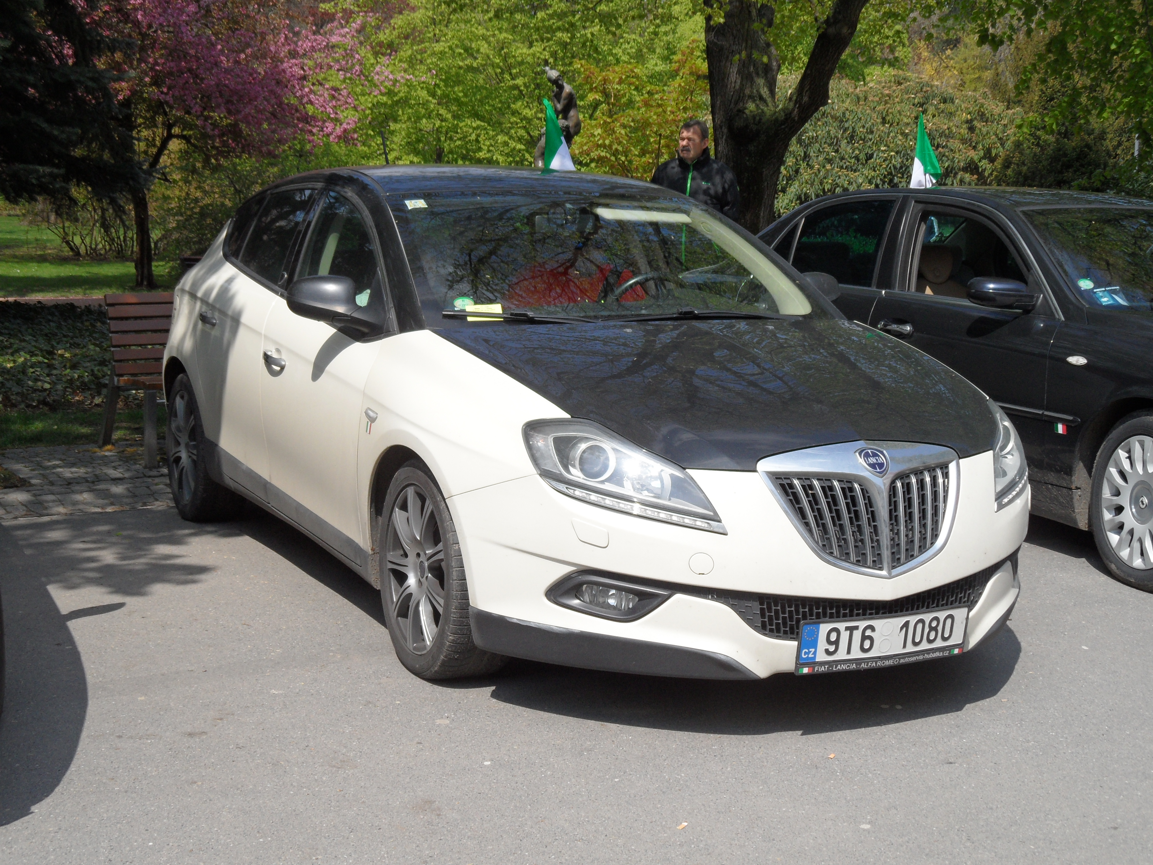 18th Meeting of Italian Car in Poděbrady; Nymburk District, the Czech Republic.Lancia Delta 3rd Generation.